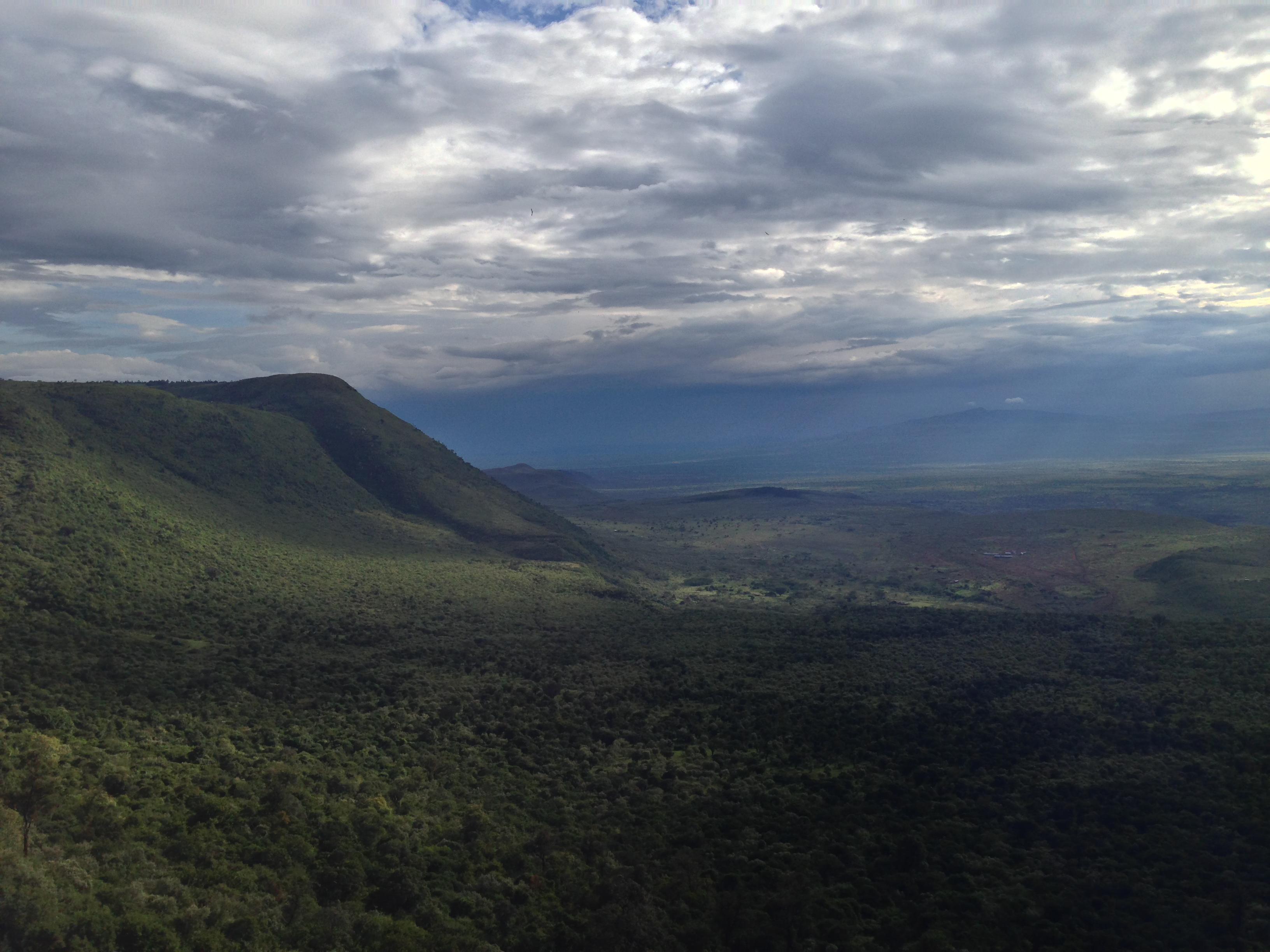 The Great Rift Valley